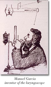 Portrait of spanish opera singer and medic Manuel Garcia (1805-1906)